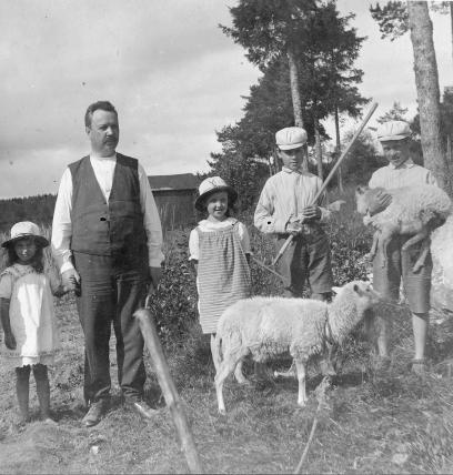 Ernst Johan Gustav Rosén (2 April 1876 – 10 December 1942) was a Swedish newspaper owner, journalist and politician. He was Minister of Defence and the Governor of Västerbotten County